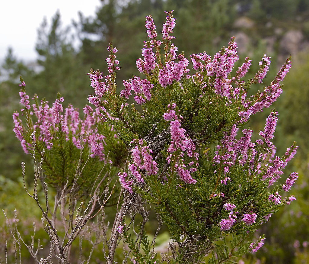 Photography of the flower Calluna vulgaris.